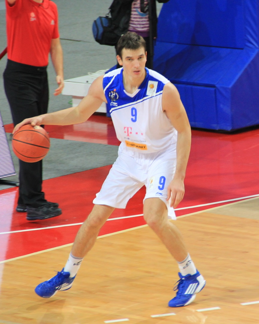 урошмзт